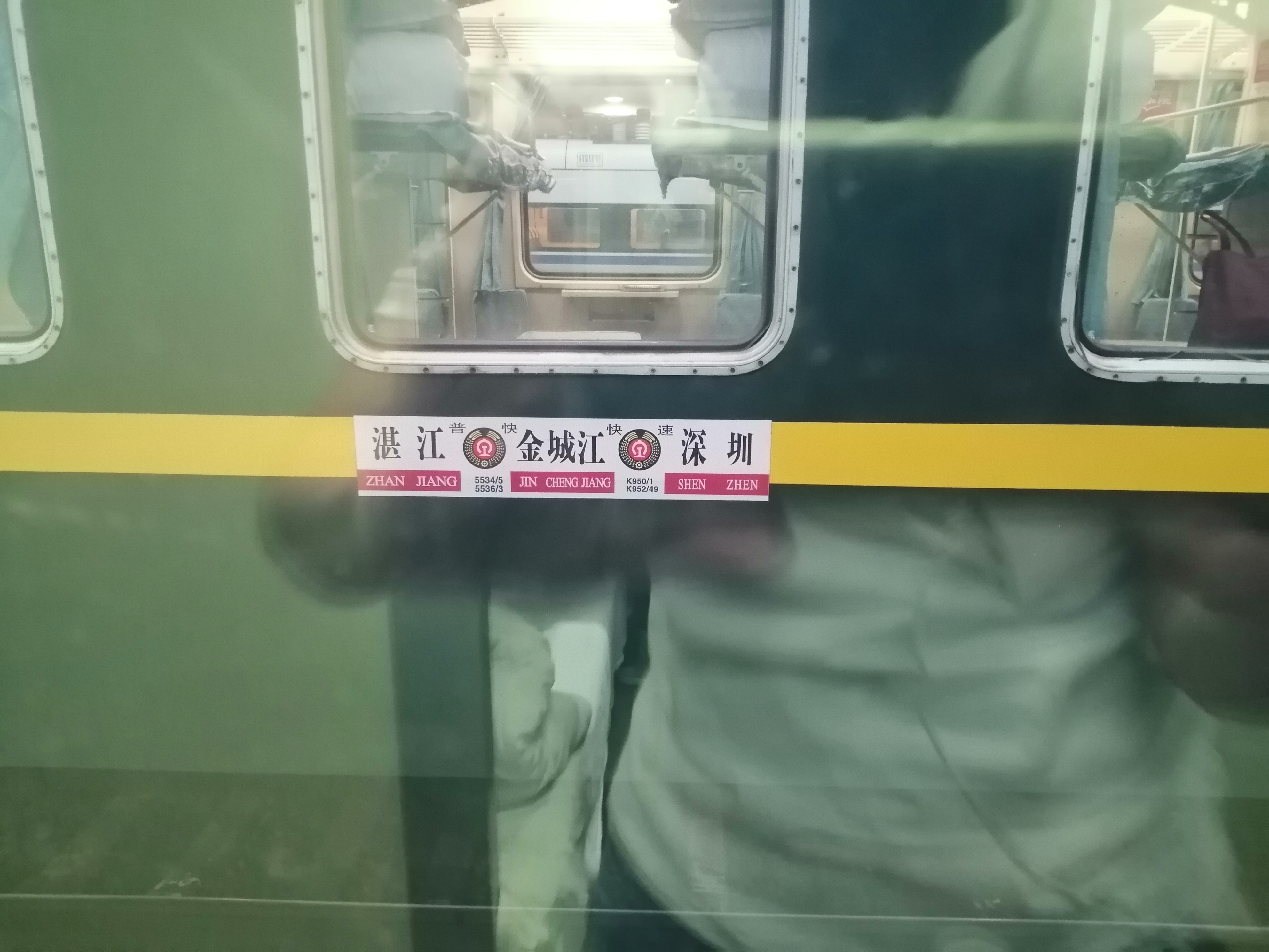 K949-952 (Shenzhen-Jinchengjiang) and 5533-5536 (Zhanjiang-Jinchengjiang) infoboard 中文（中国大陆）: K950/951、K952/949次列车水牌，目前与5534/5535、5536/5533次套跑。